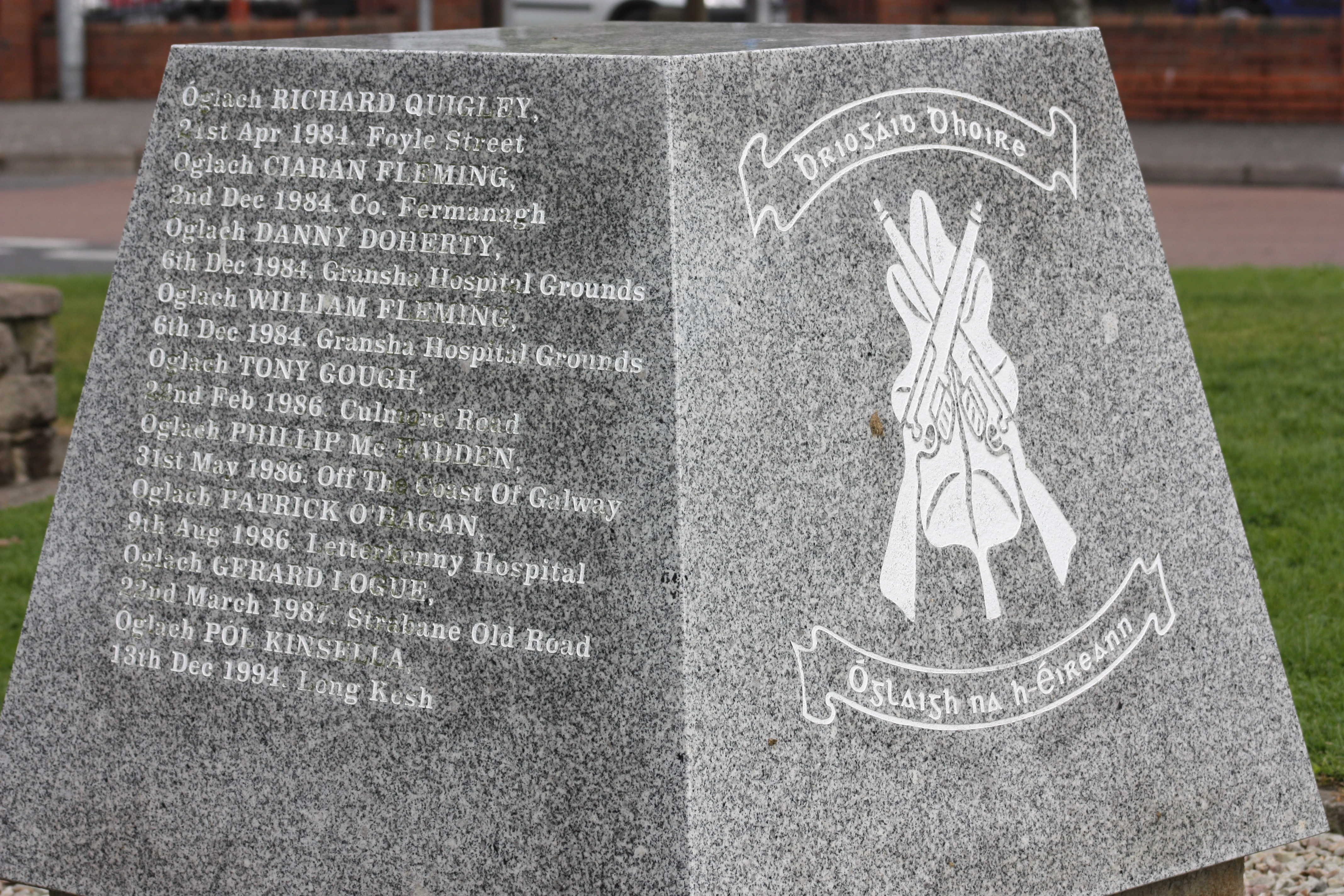 Memorial stone, Bogside, Derry, County Londonderry, Northern Ireland, August 2009